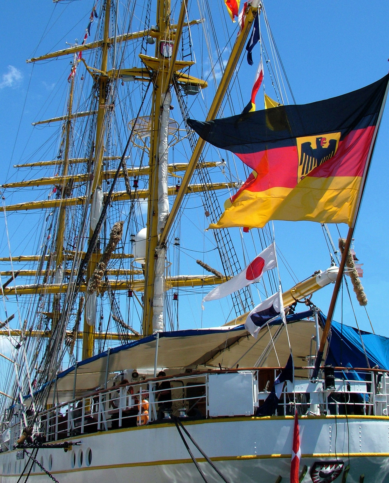 Gorch Fock II sails majestically past the lighthouse on Georges Island, bringing to a close the Halifax portion of the Tall Ships Nova Scotia Festival.